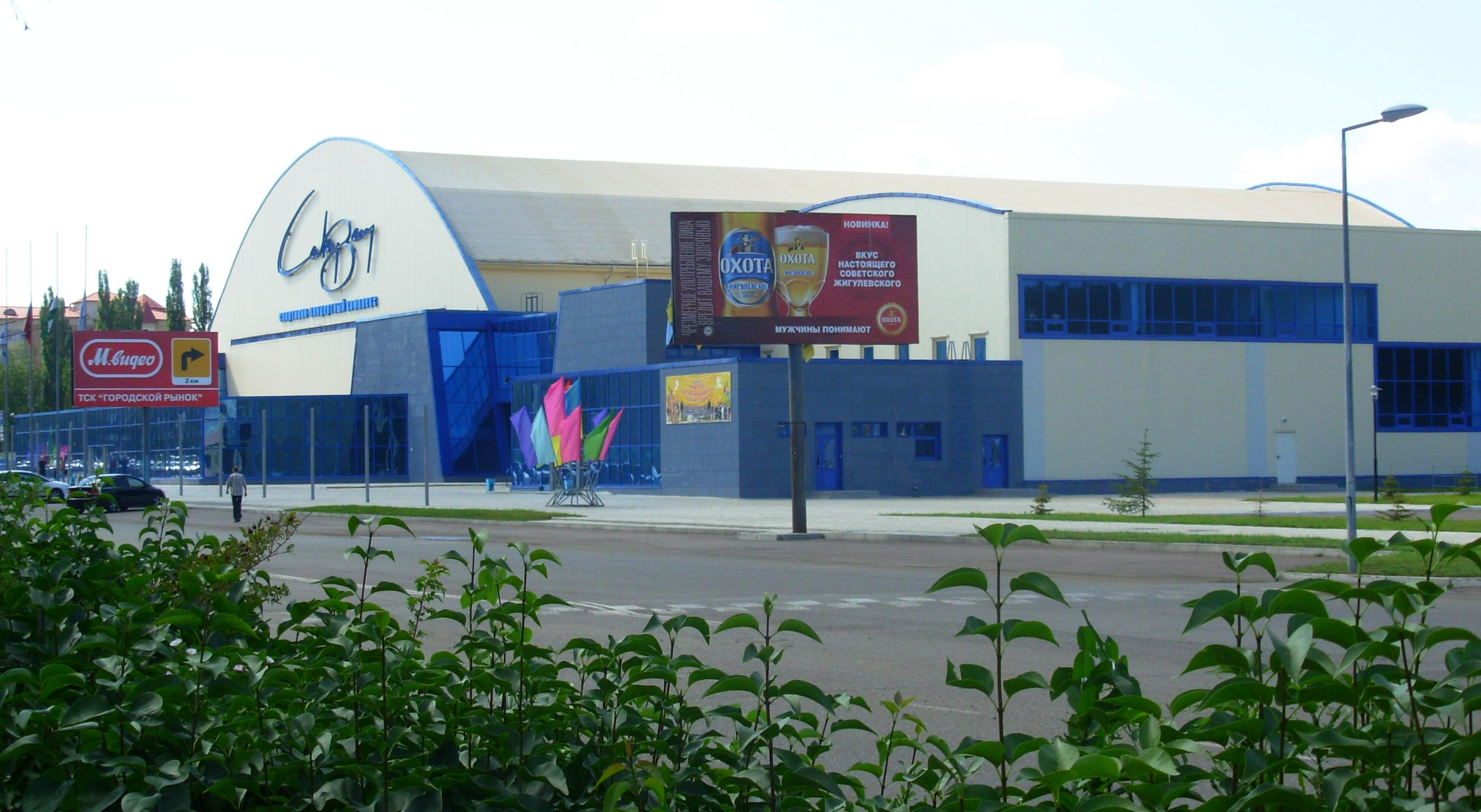 town